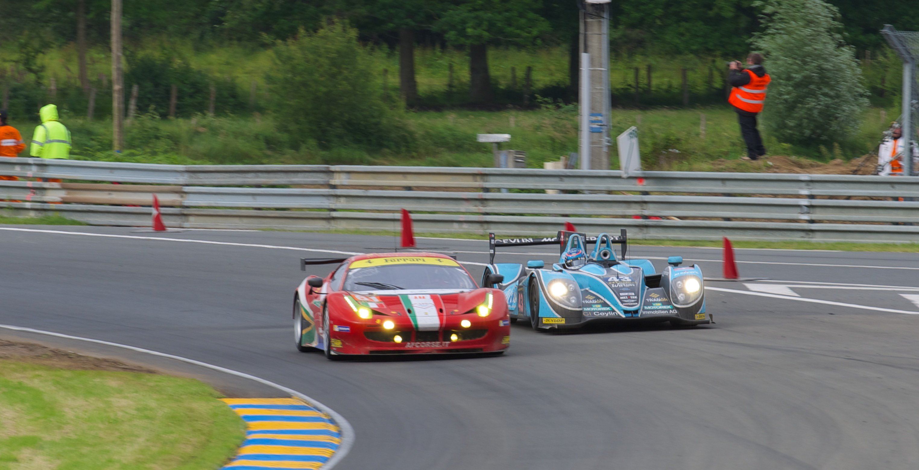 Morgan LMP2 #43 (right) of Morand Racing overtaking the AF Corse Ferrari 458 Italia #61 (left) during the 2013 24 Hours of Le Mans race.